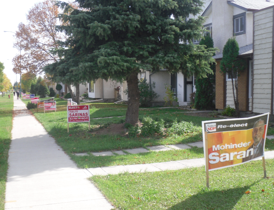 An image showing the multiple election signs of the 2011 Manitoba Provincial election in the riding of The Maples.